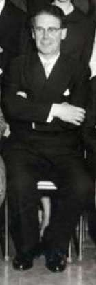 Swedish teacher, headmaster and school profile Gustaf Kling (1902-??). Graduation in Perslundaskolan (then Högre folkskolan), Ockelbo, Sweden. Cropped image of the original version from 1959.